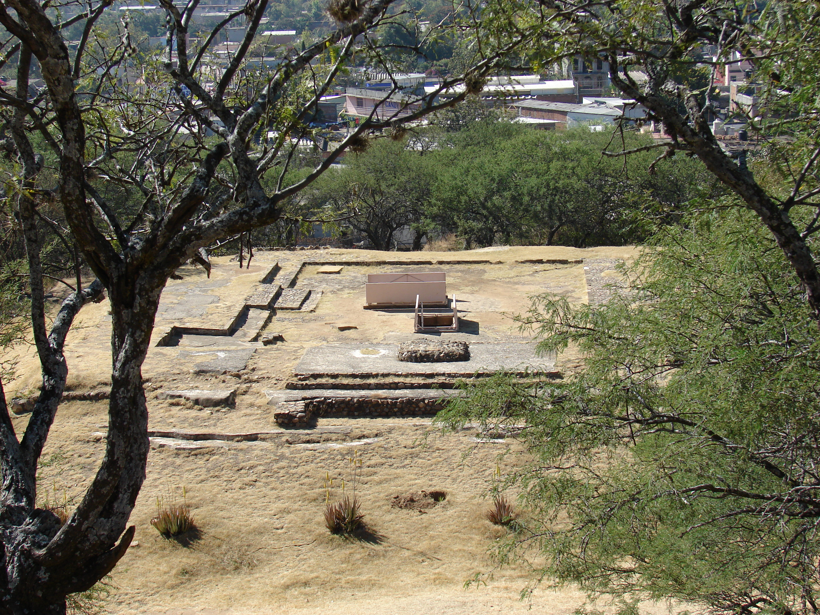 Archeological site of Zaachila, in state of Oaxaca, Mexico.